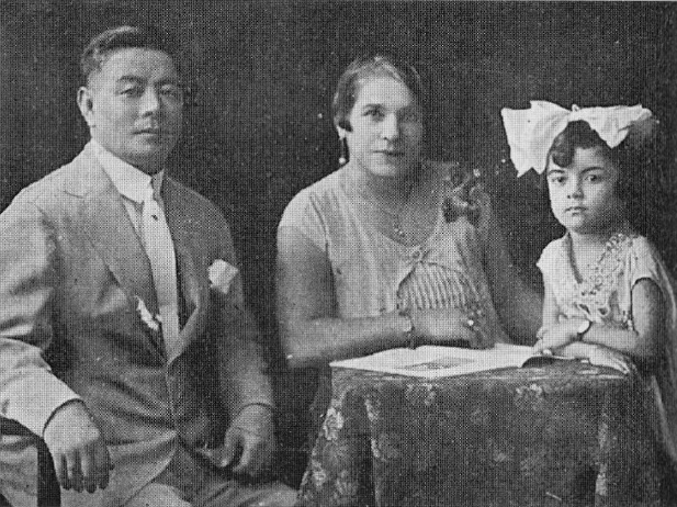 Japanese judoka, Mitsuyo Maeda and his family Left : Mitsuyo Maeda Center : His wife, D. May Iris Right : Their adopted daughter